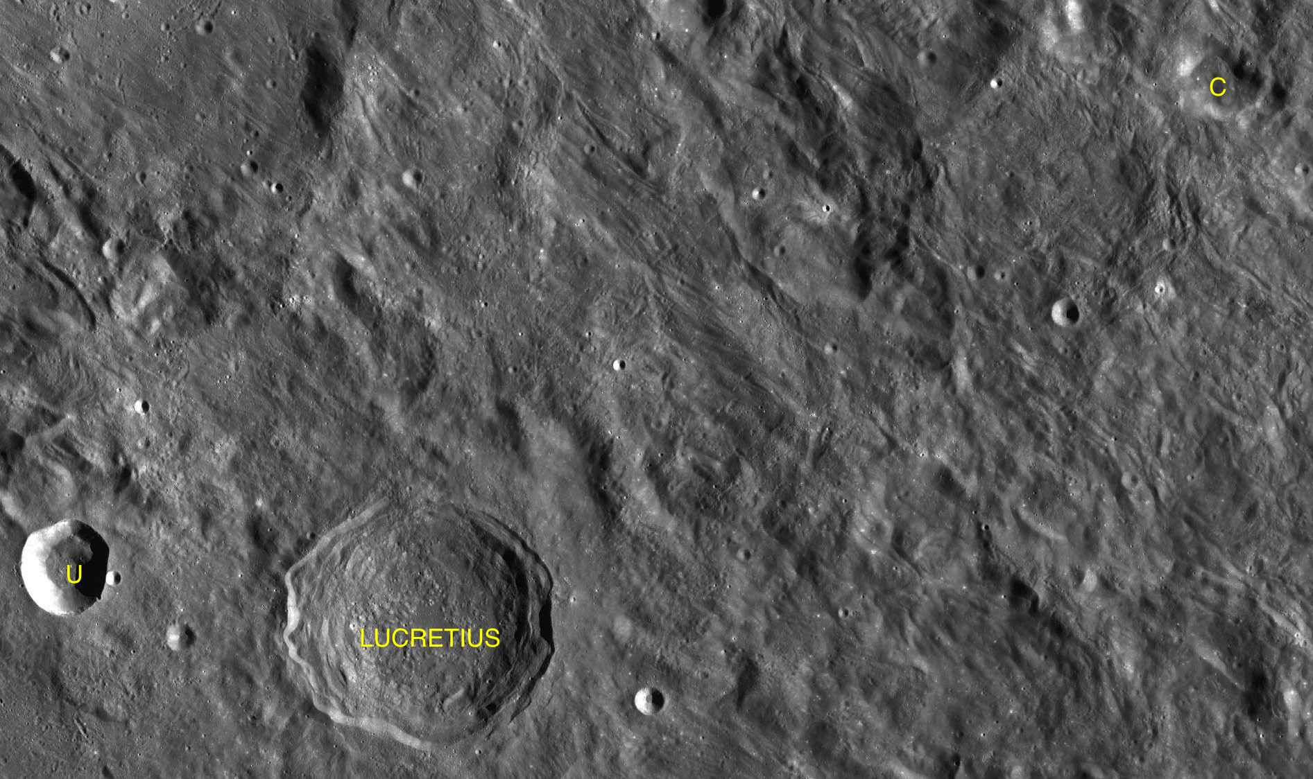 Part of the chart LAC-89 used for the presentation